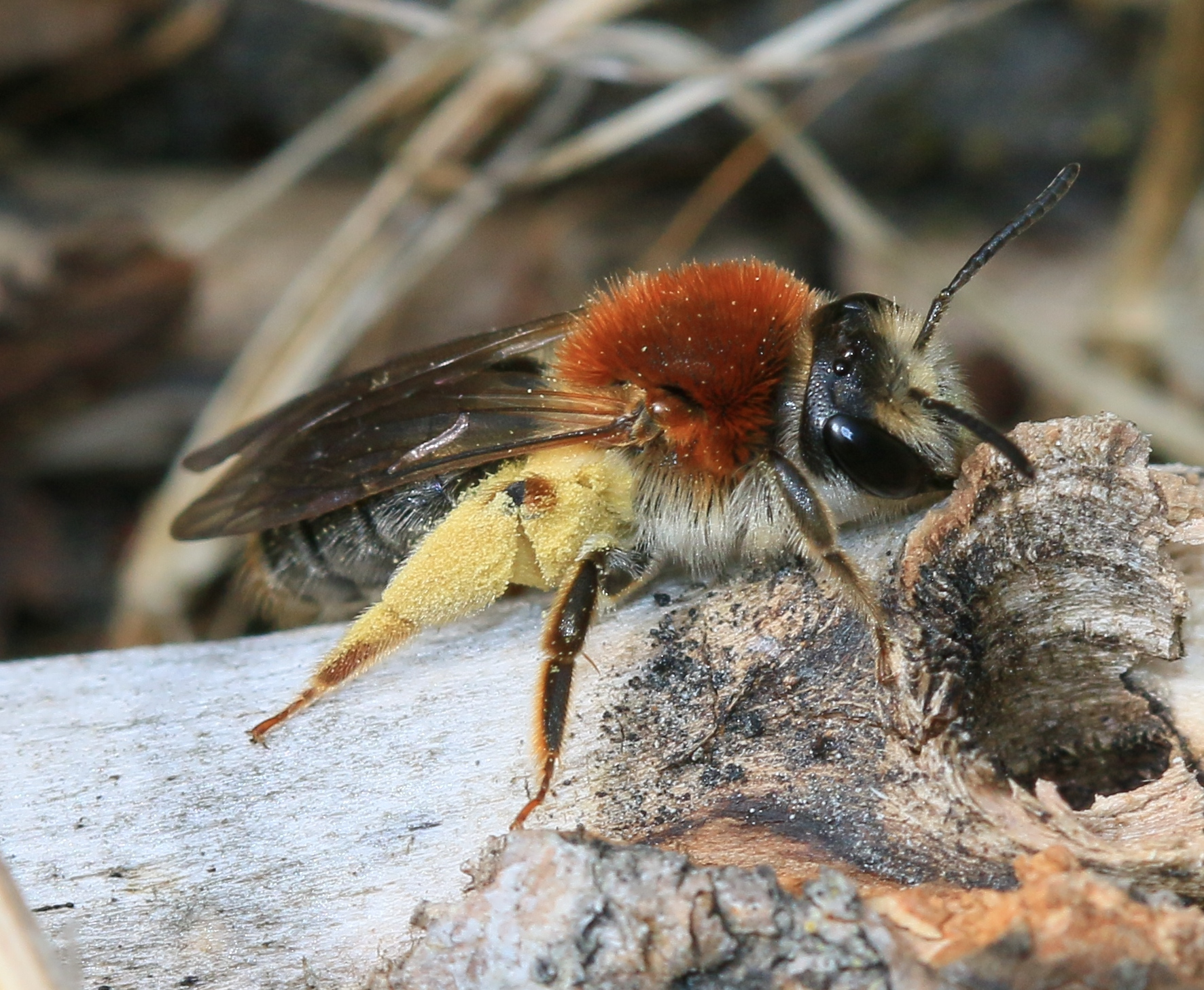 Musselburgh Invert survey